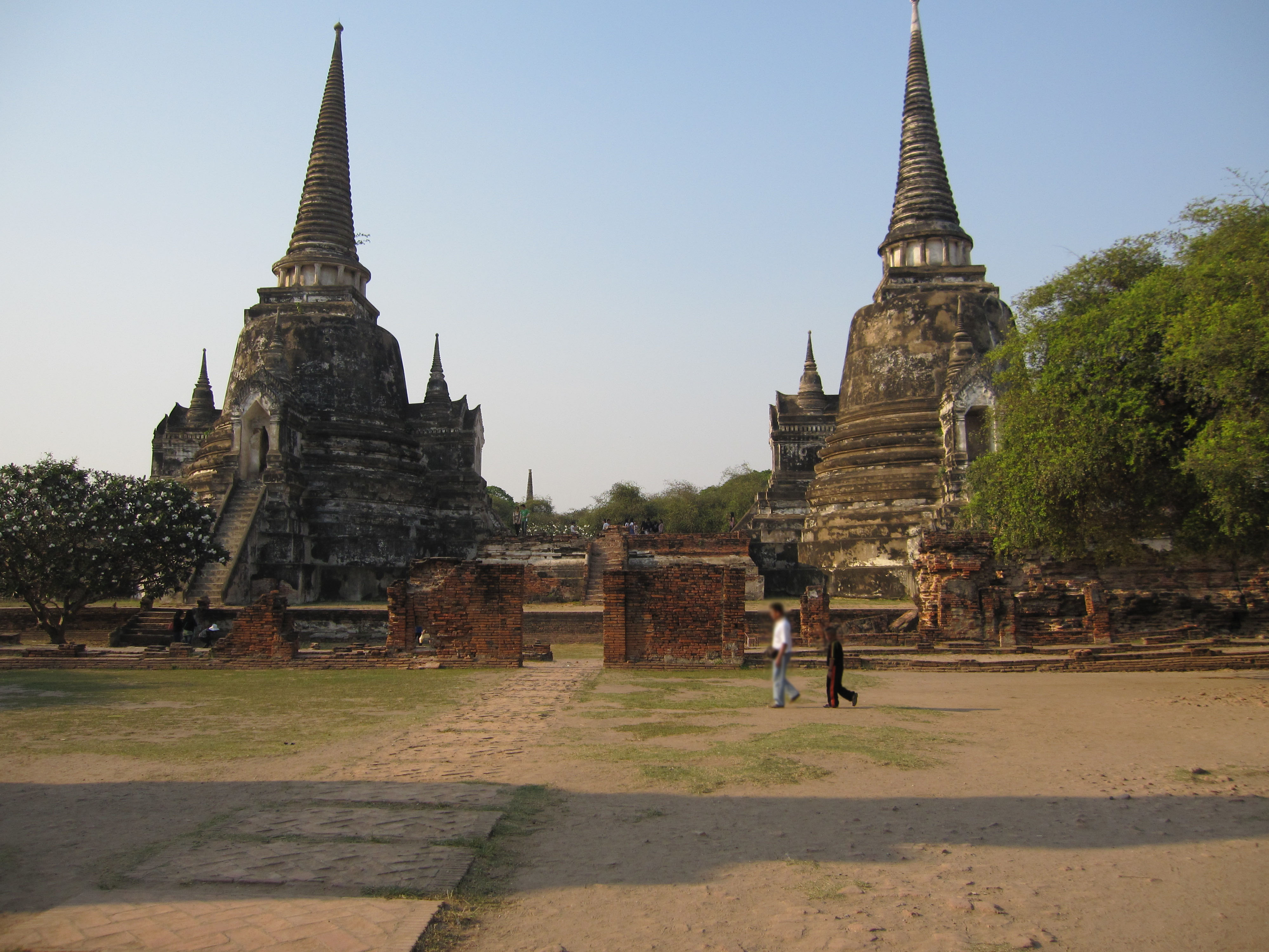 Wat Phra Sri Sanphet